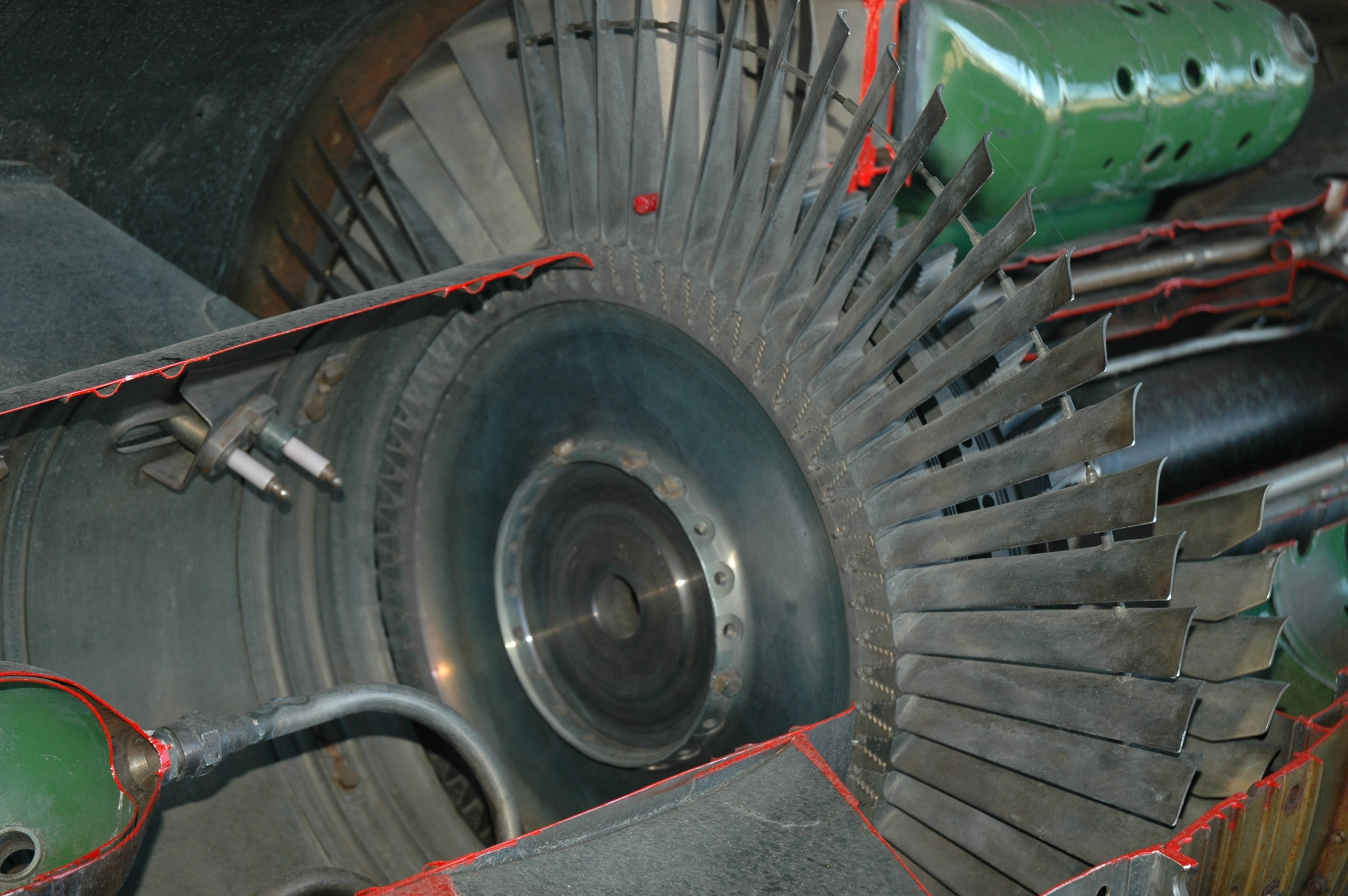 Tumansky R-11 turbojet engine cutaway (displayed at the Museum of Hungarian Aviation in Szolnok)